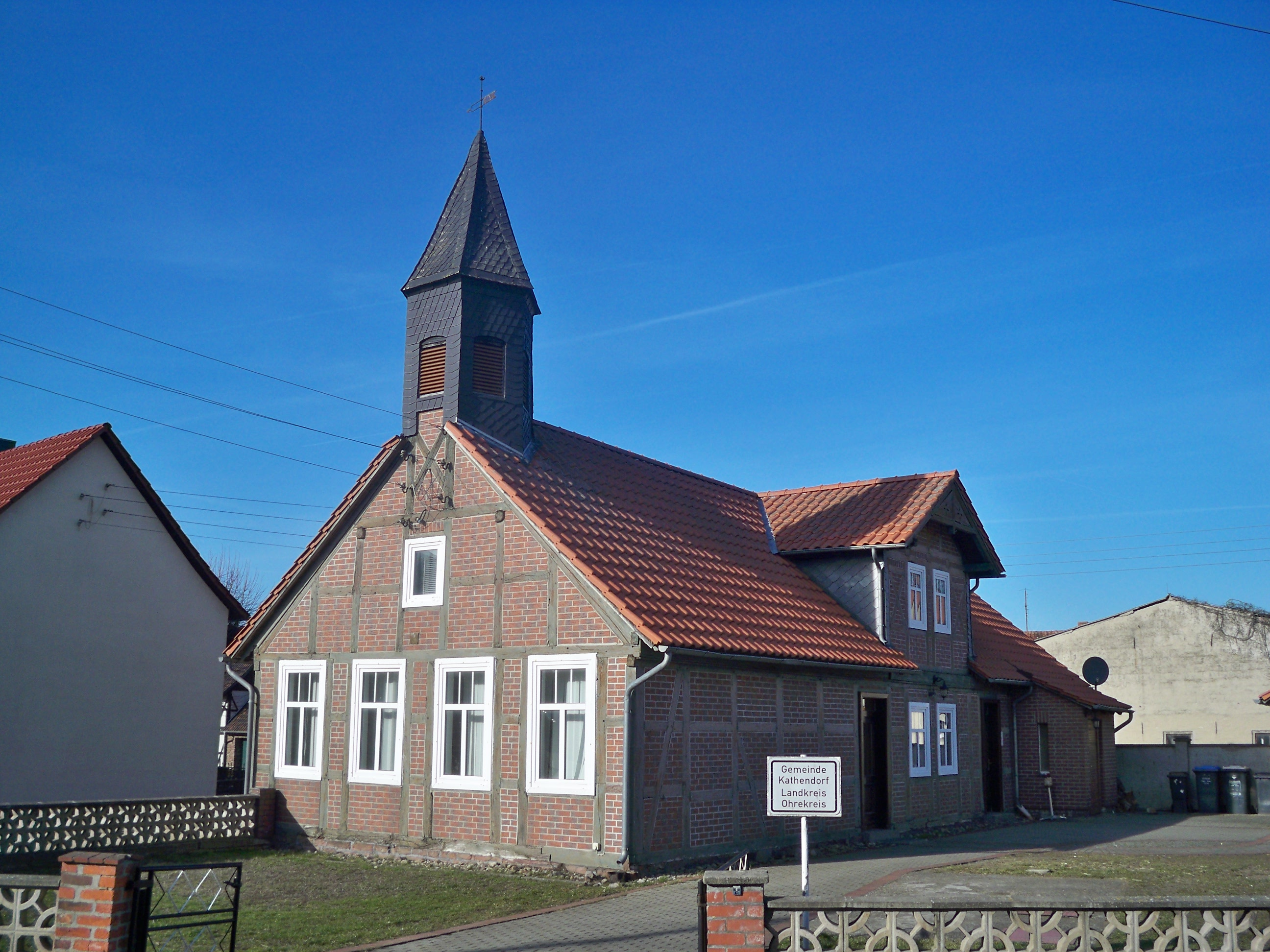 Kathendorf, Oebisfelde-Weferlingen, Saxony-Anhalt, former seat of municipality